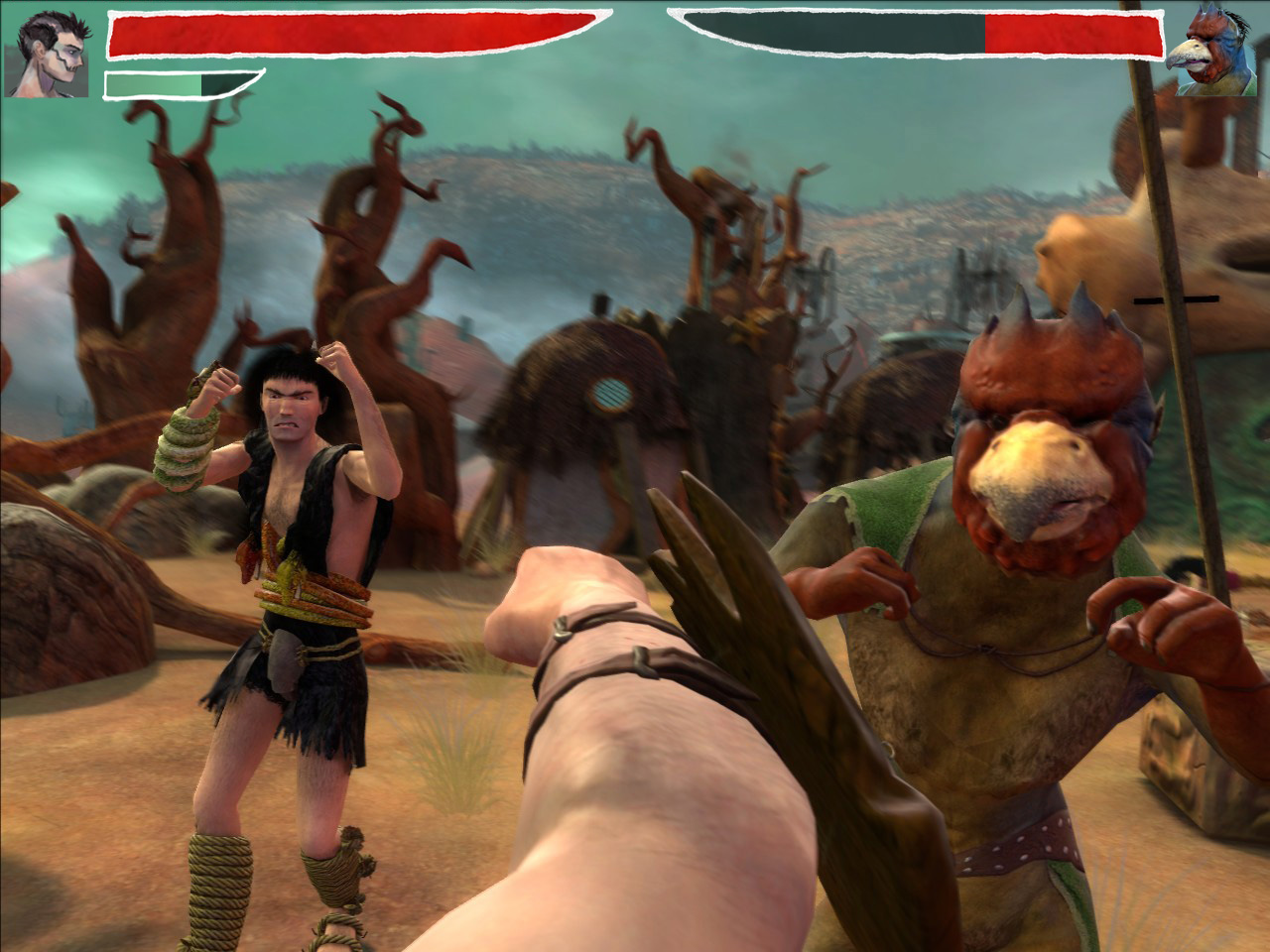 Zeno Clash screenshot. Released in 2009, the game was developed by ACE Team and is powered by Valve Software's Source engine.